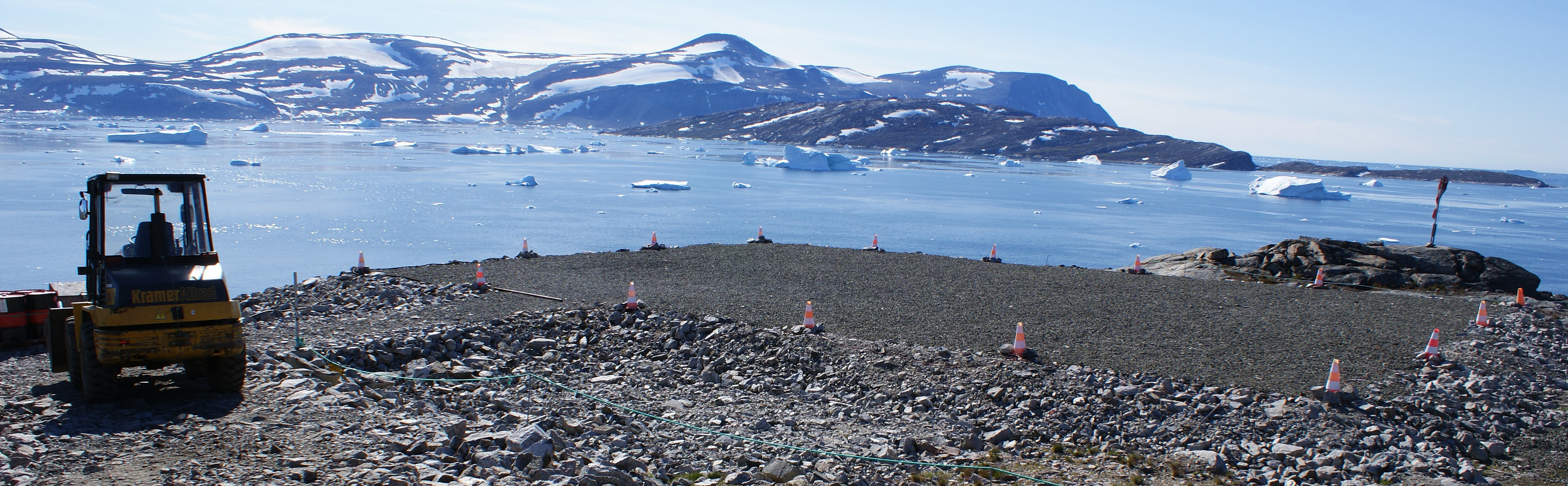 Kullorsuaq Heliport, Kullorsuaq Island, Melville Bay, Upernavik Archipelago, Greenland. Behind, Saarlia Island, and Kiatassuaq Island, with Wilcox Head cape hidden behind the former.